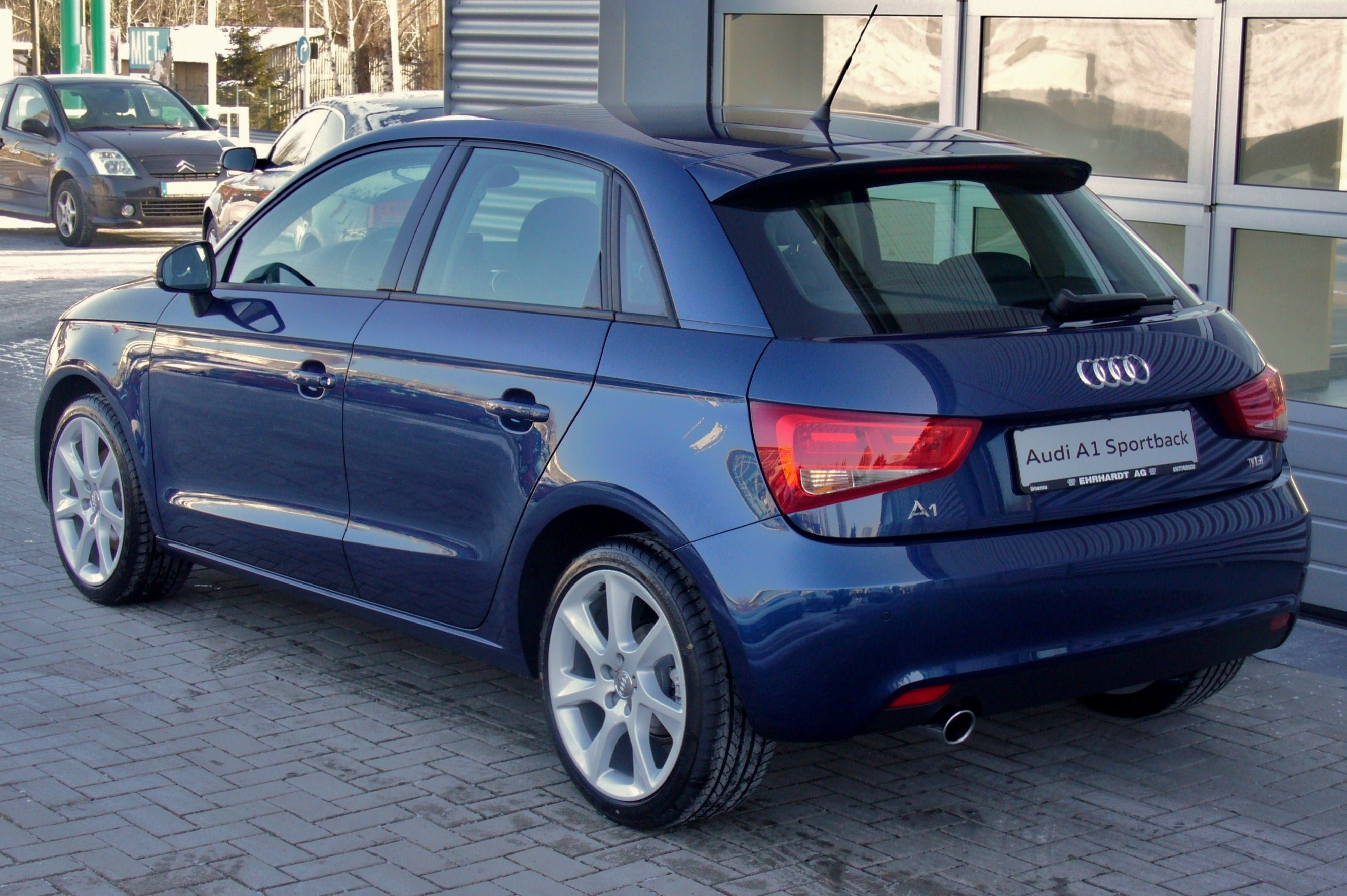 Audi A1 Sportback